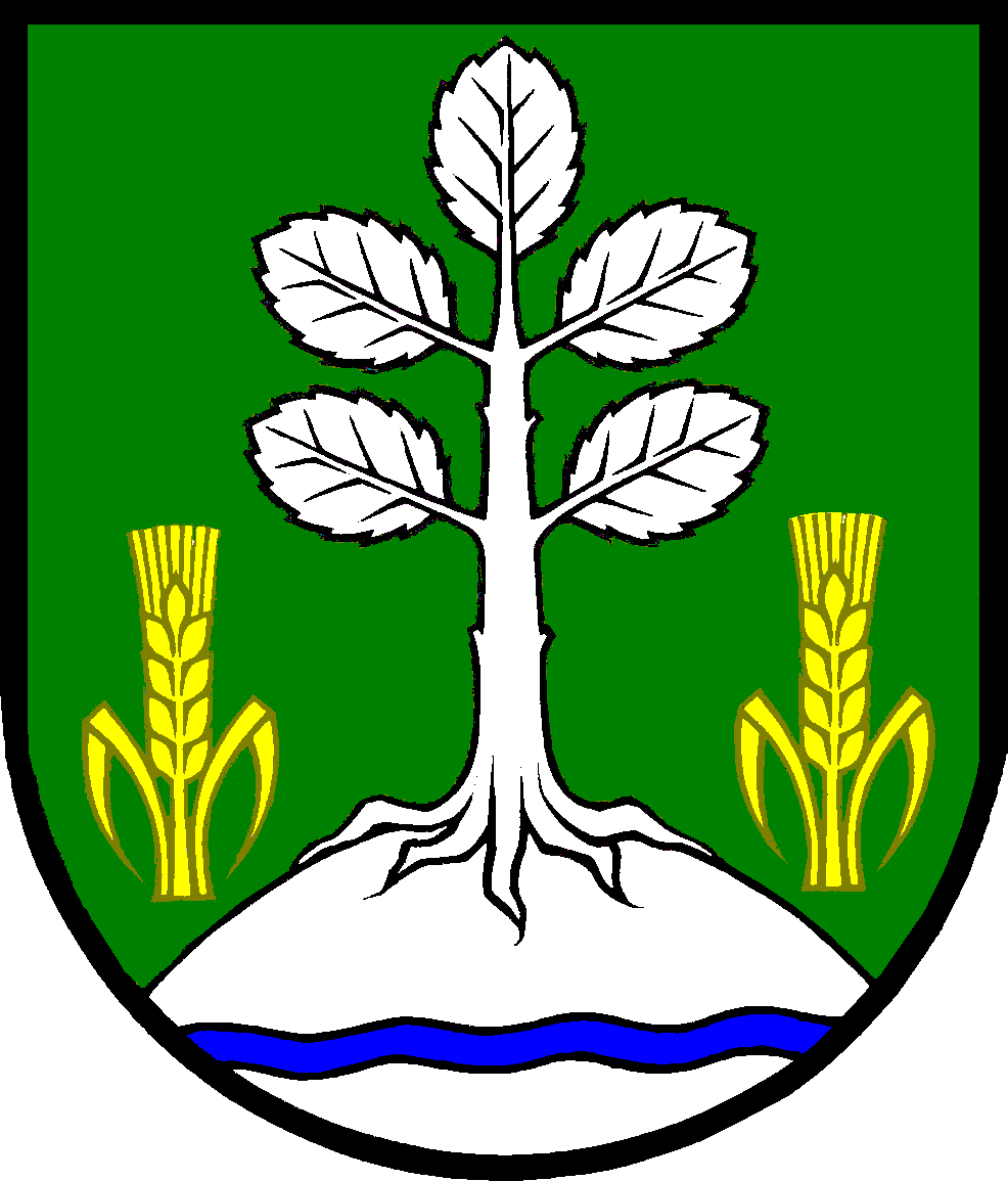 Coat of arms of the municipality Oelixdorf in Schleswig-Holstein, Germany.